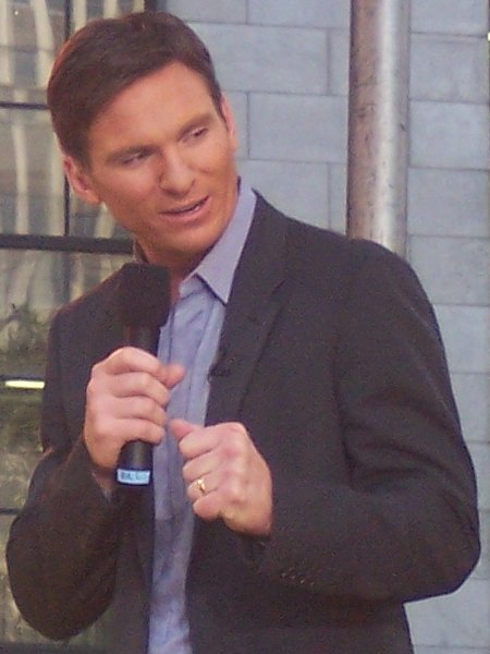 Cropped photo of Bill Weir